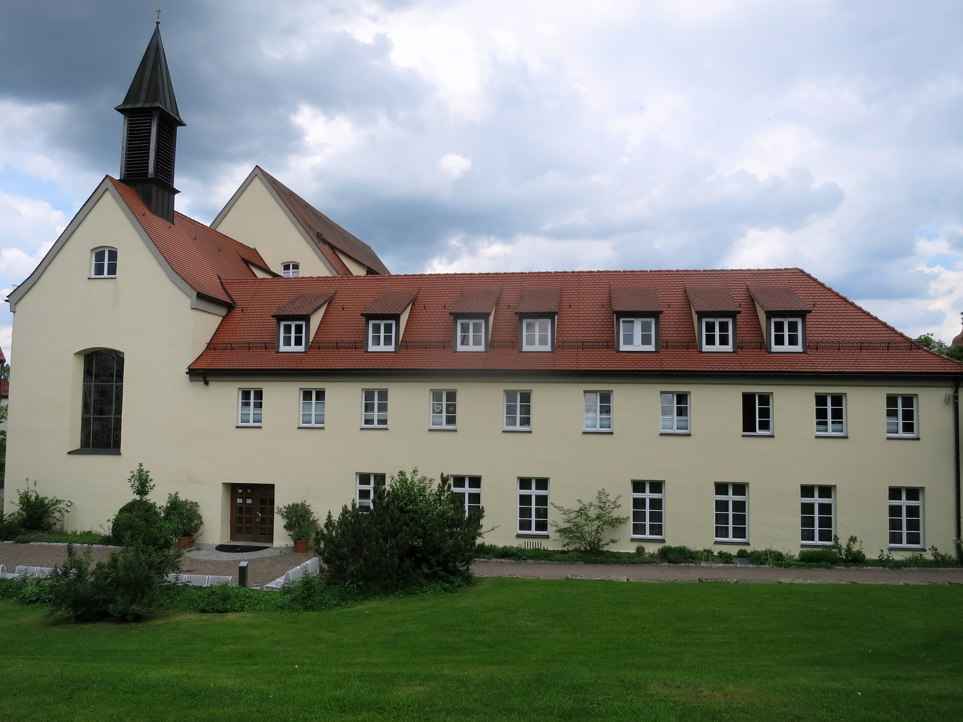 Village for children - pictures of the site Marienpflege Ellwangen